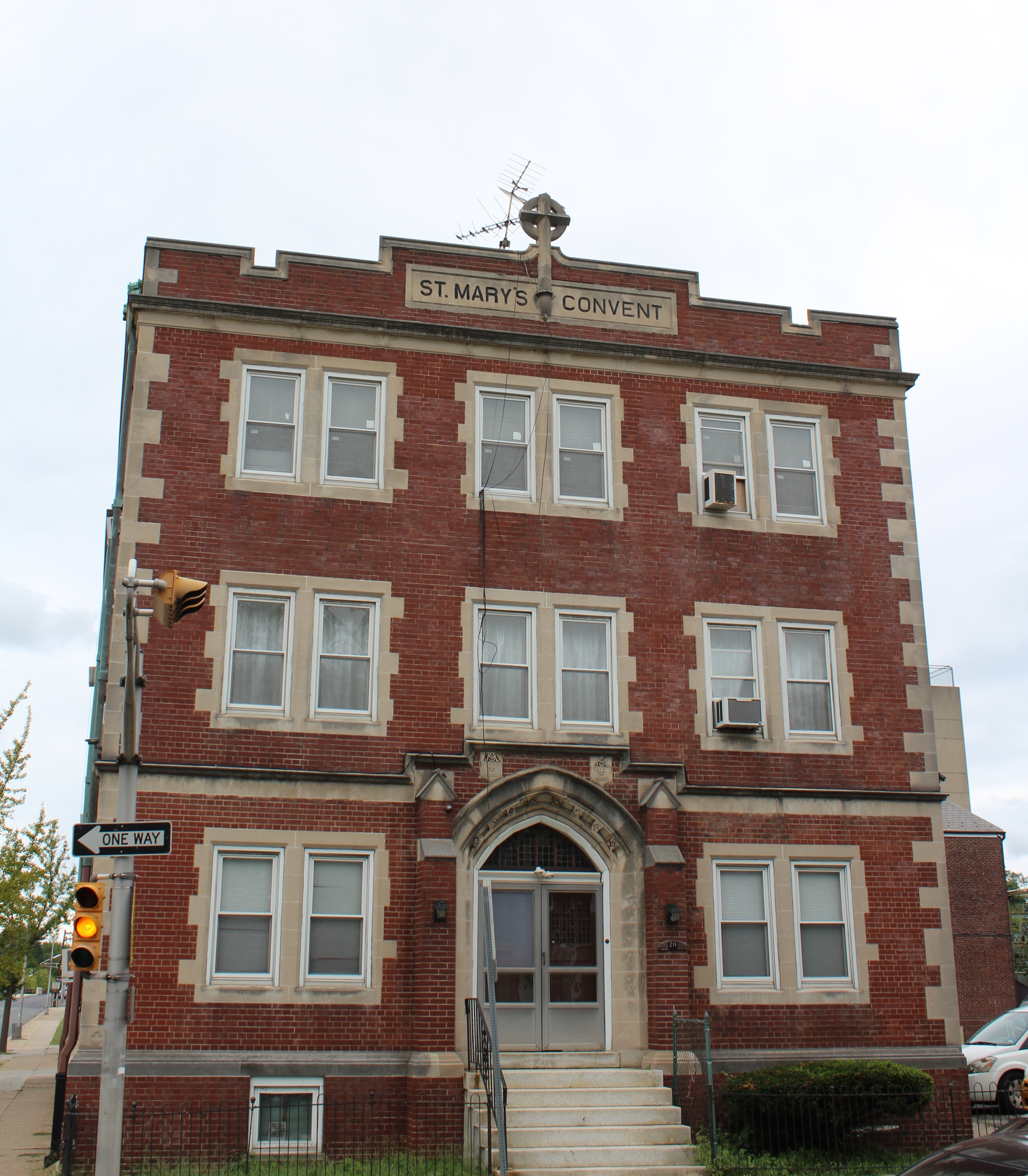 St Mary's Assumption Church Convent Building Object location40° 13′ 23.09″ N, 74° 45′ 56.66″ W